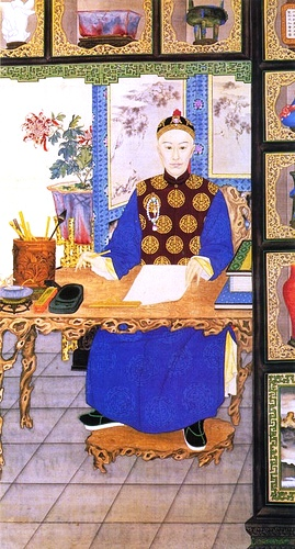 The Imperial Portrait of Guangxu, Emperor of China